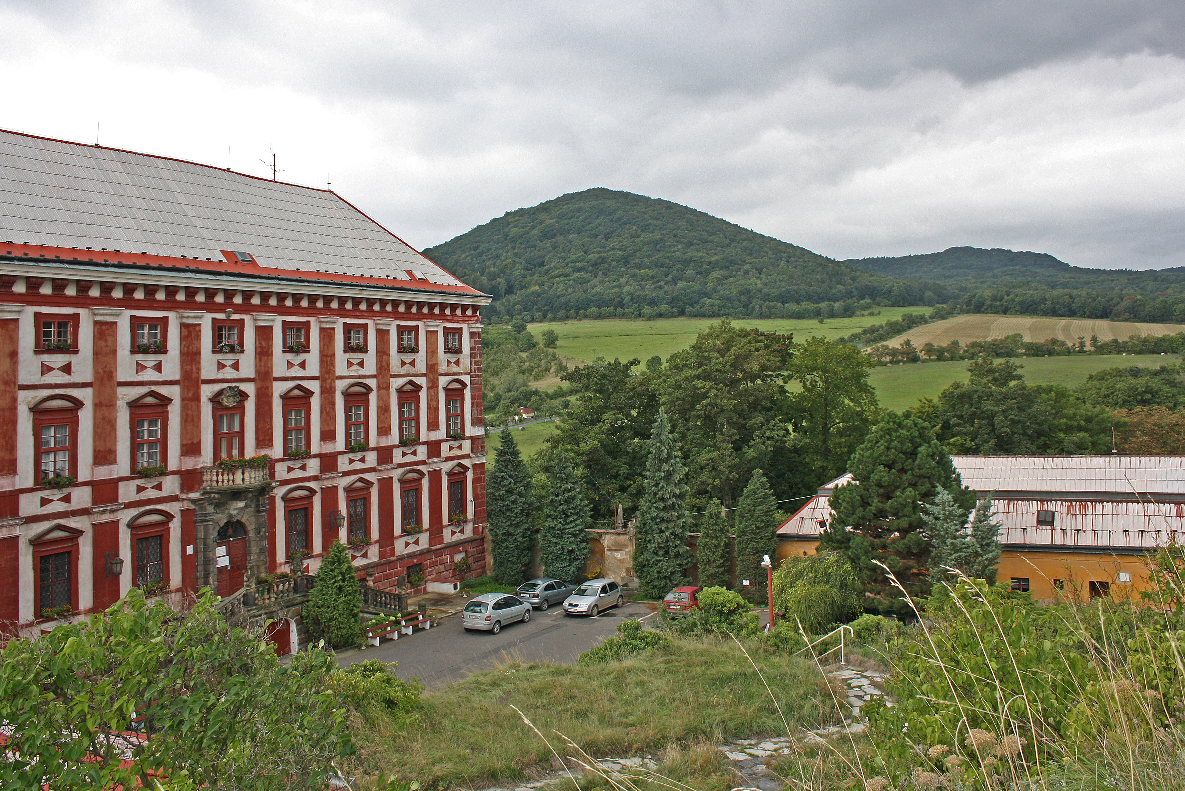 Milešovský Kloc hill (674 m) from Milešov palace, České středohoří, Czech Republic.